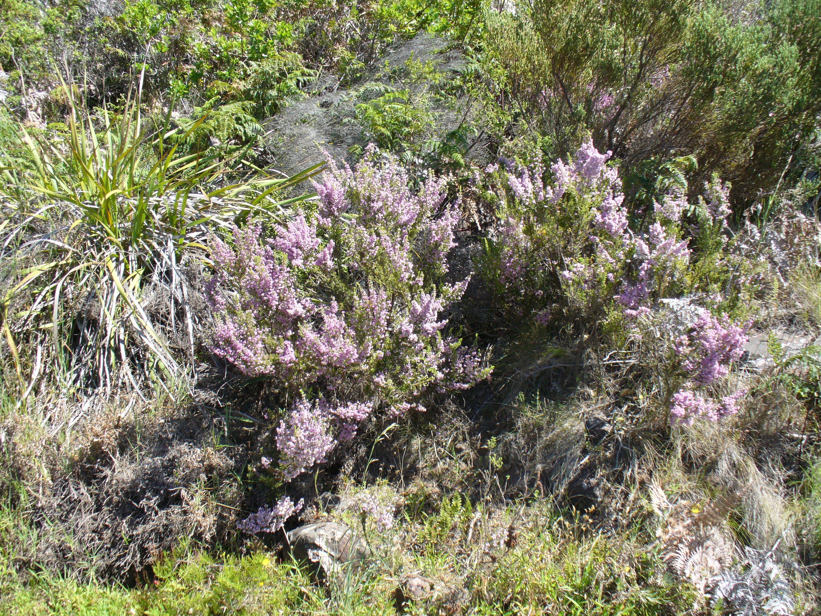 8 stamens, small flowers, common.